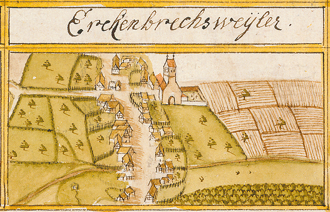 View of Erkenbrechtsweiler from the forest register books created by Andreas Kieser